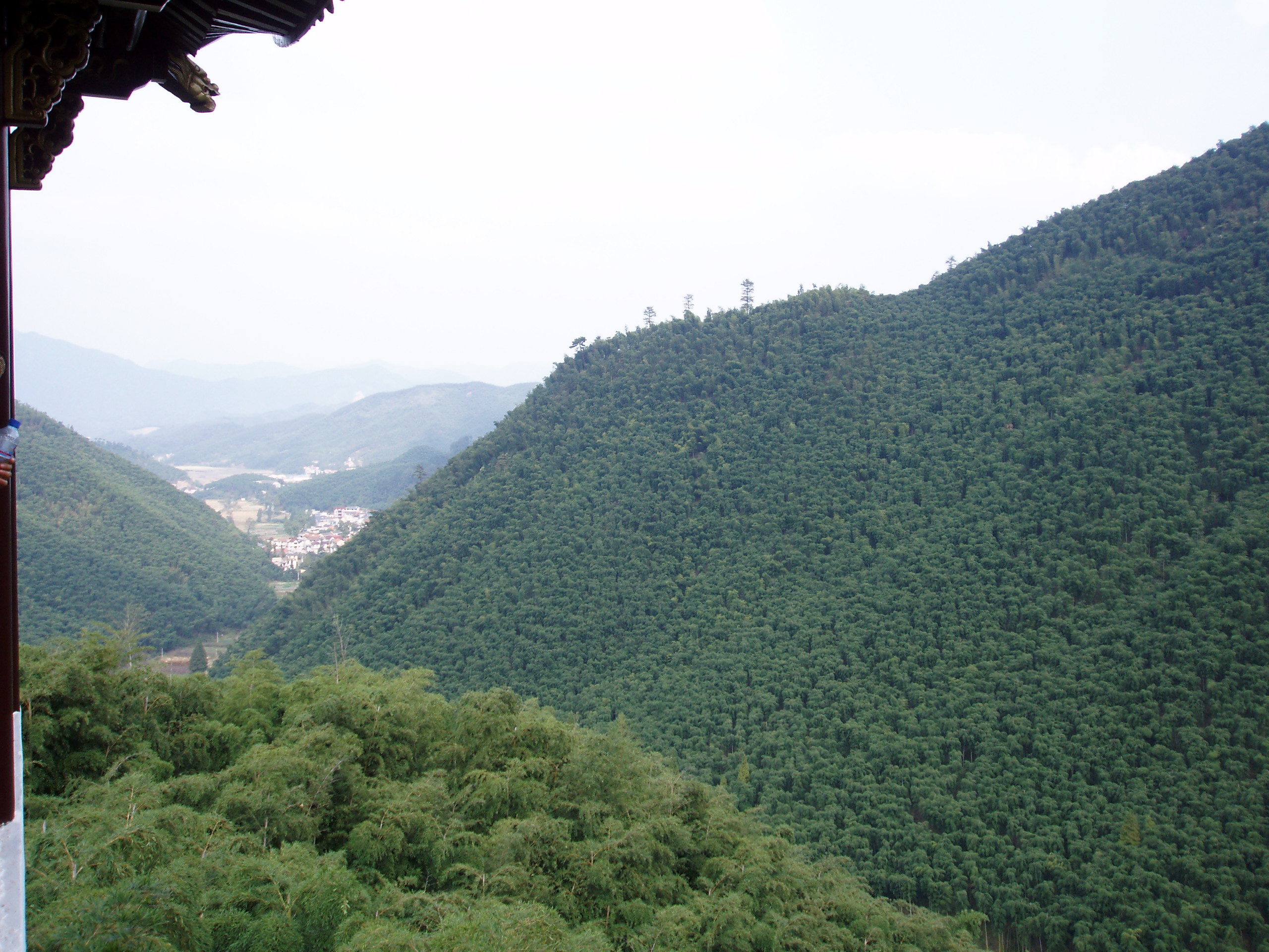 Bamboo forest in An'ji, Zhejiang,China.